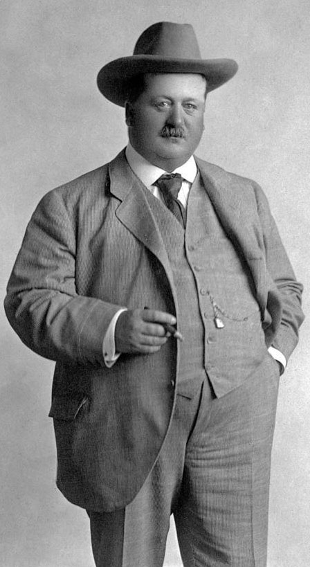 Edgerton W. Day